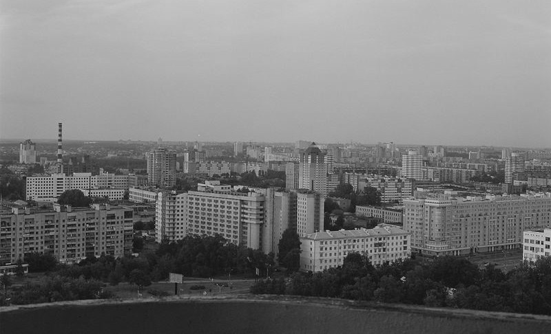 View from above (probably from Hotel Belarus) towards Vera Khoruzhaya street. Minsk, Belarus. Беларуская (тарашкевіца): Выгляд з вышыні (магчыма з гасьцініцы «Беларусь») у напрамку вуліцы Веры Харужай. Менск, Беларусь.